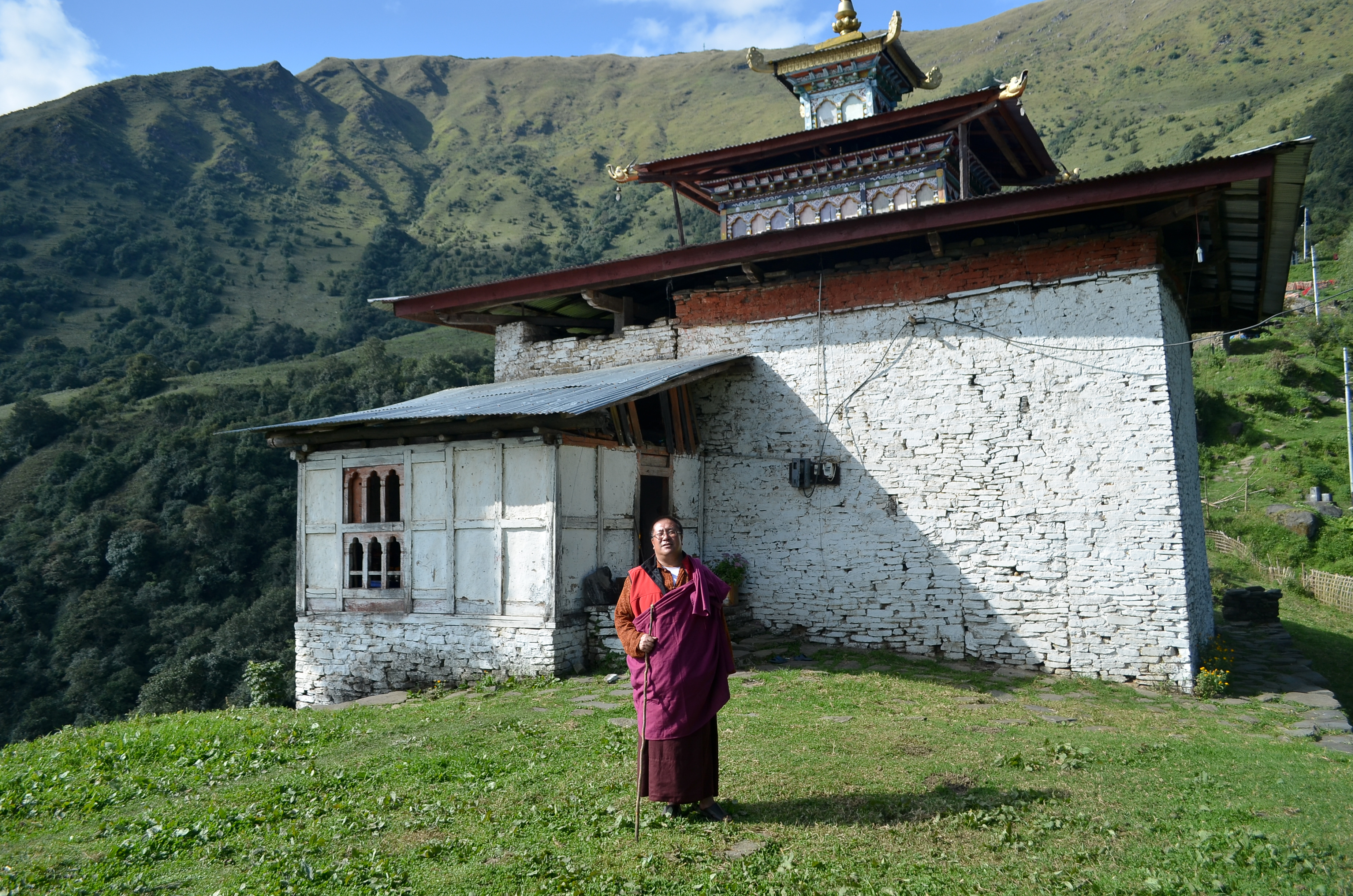 Khochung Lhakhang is a small temple in Gangzur Gewog, Lhuntse District of E. Bhutan. It was founded by Khochung Chöje (b. 1505), one of the sons of Terton Pema Lingpa and an ancestor of the Bhutanese Royal family. The remains of Khochung Chöje are enshrined in a stupa within this temple. The original temple was restored by Lopon Sonam Zangpo (1888-1982) Recently a small monastic school for young monks was established in an old house located behind the temple.